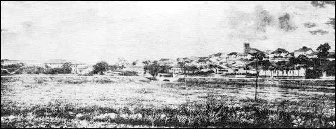 Photo of the Chácara Bresser, São Paulo.